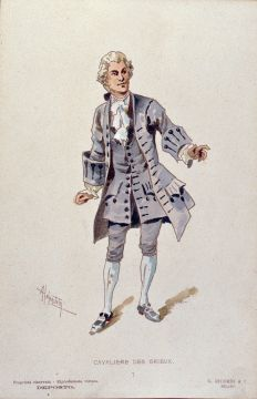 Description: Des Grieux's costume for Act II of Manon Lescaut for the world premiere performance, Teatro Regio di Torino, 1 February 1893. Artist: Adolf Hohenstein (1854-1928) Provenance: Museo Teatrale alla Scala.